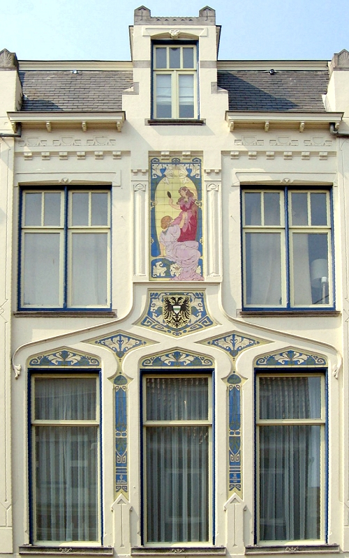 Herestraat 101, Groningen